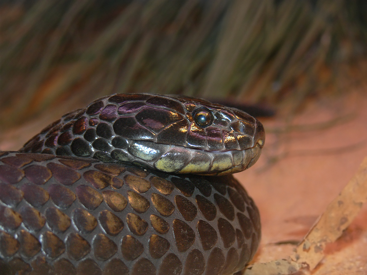 The head and fangs of a Chappell Island Tiger snake (Genus Notechis).